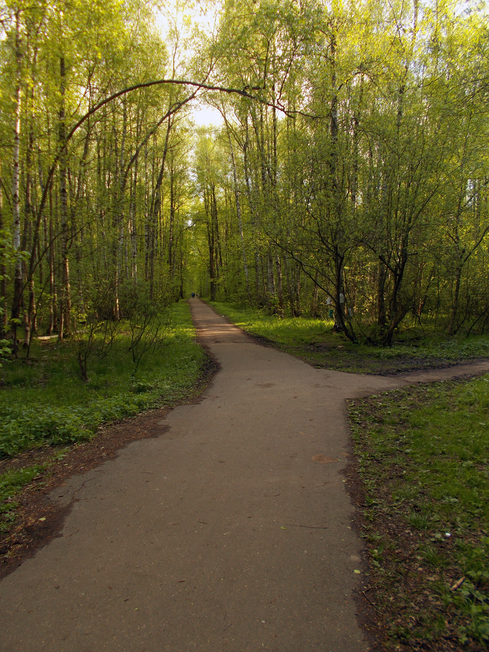 Elektrostal. Forest parks.